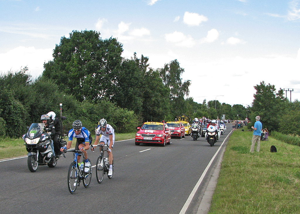 Tour de France: two-man breakaway